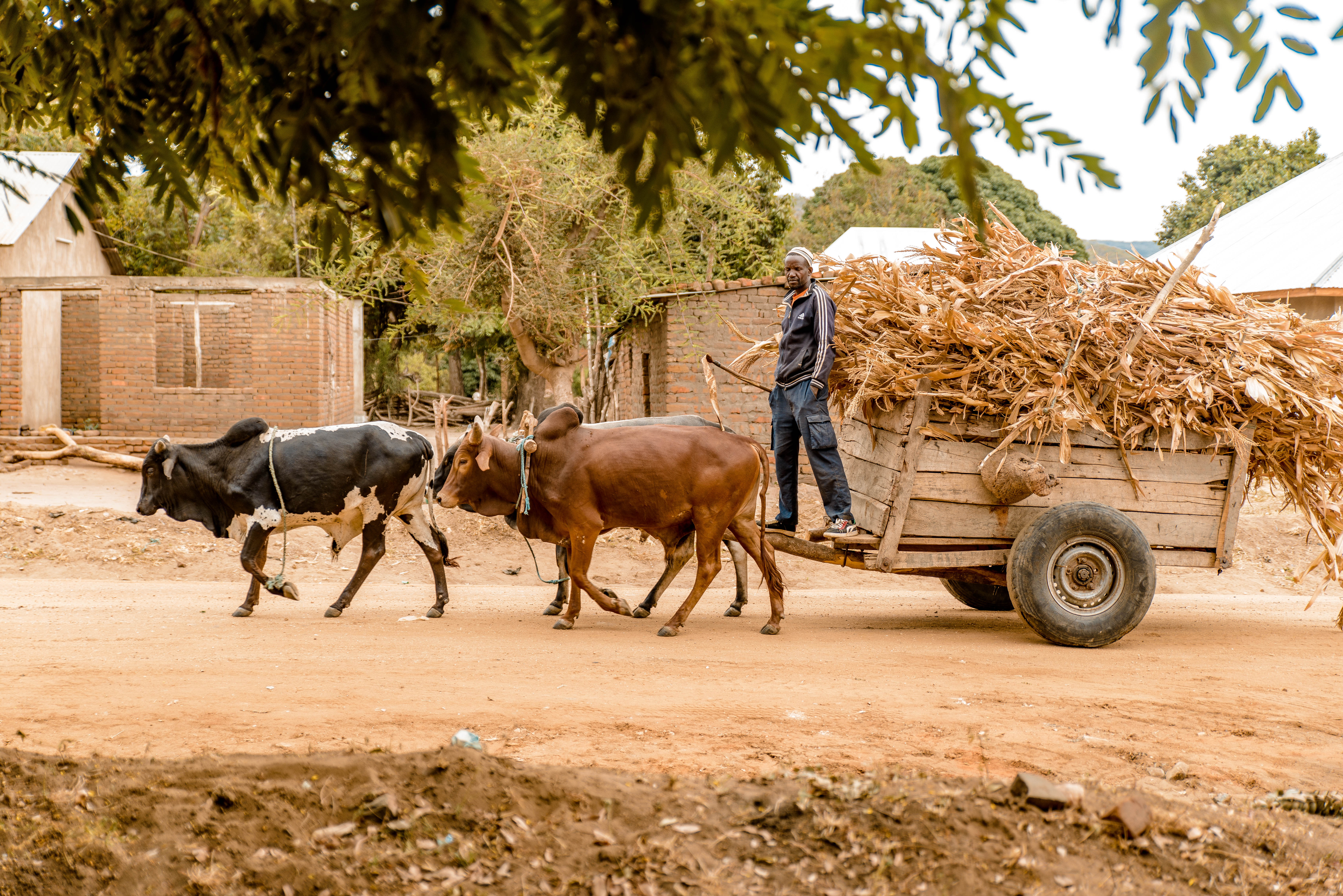 Spotted a cow a ride a bunch of grasses in Kondoa Tanzania This is an image with the theme "Africa on the Move or Transport" from: Tanzania